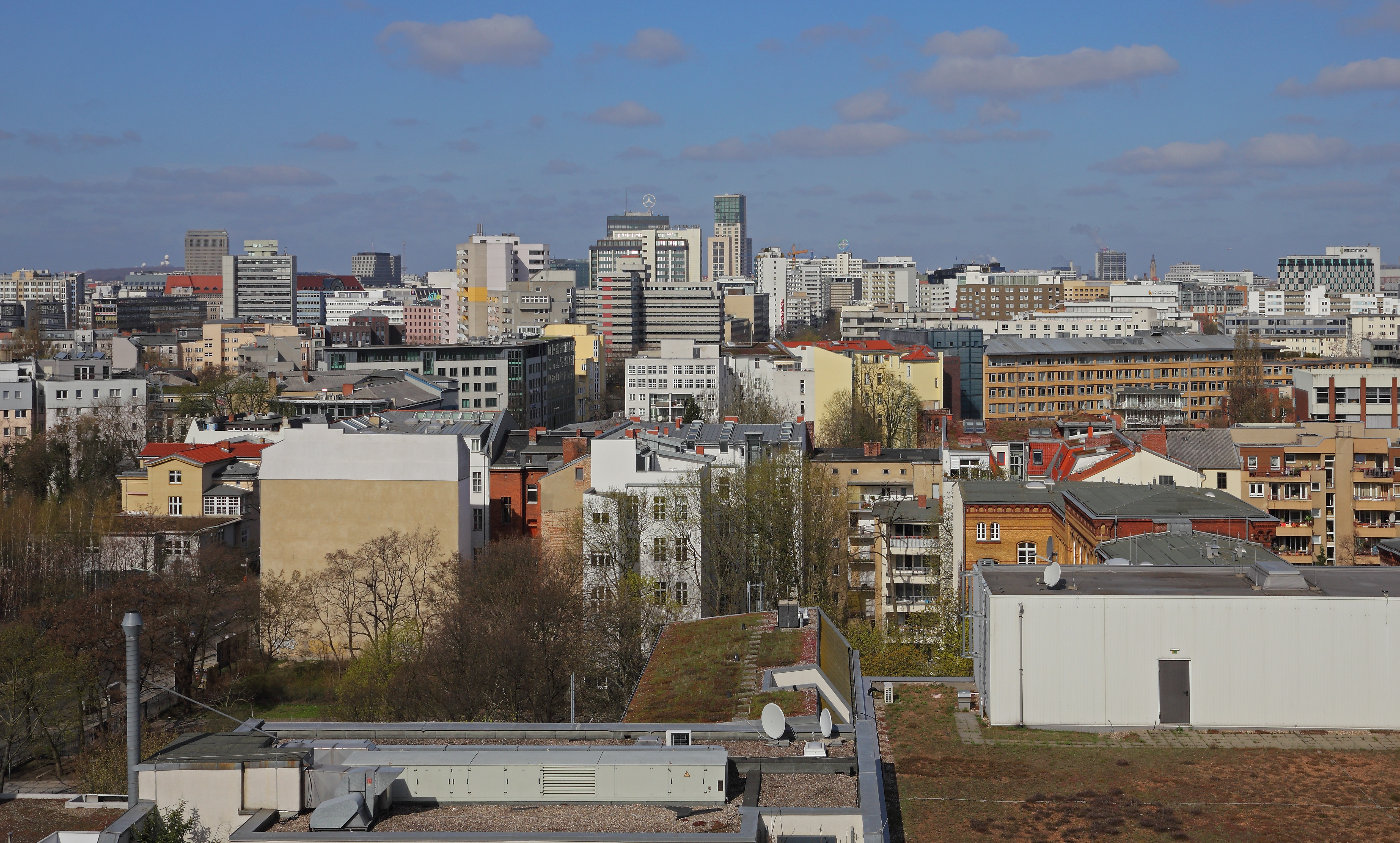 Skyline in Berlin-Schöneberg, Germany.